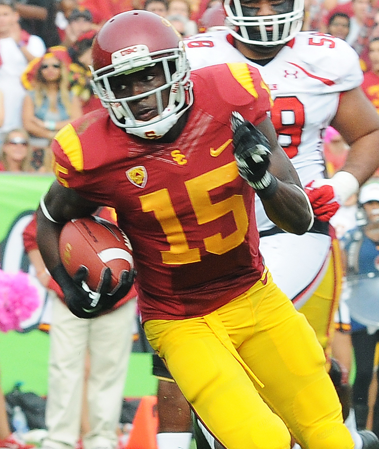 USC Trojans wide receiver, Nelson Agholor, playing against the Utah Utes football on October 26, 2013.